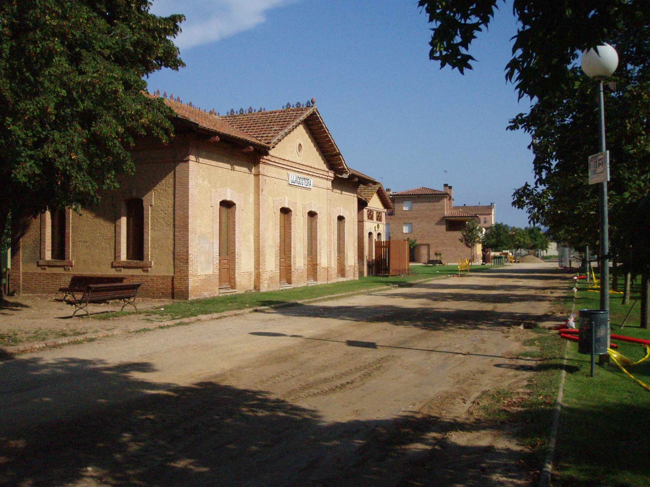 Llagostera's old railroad station